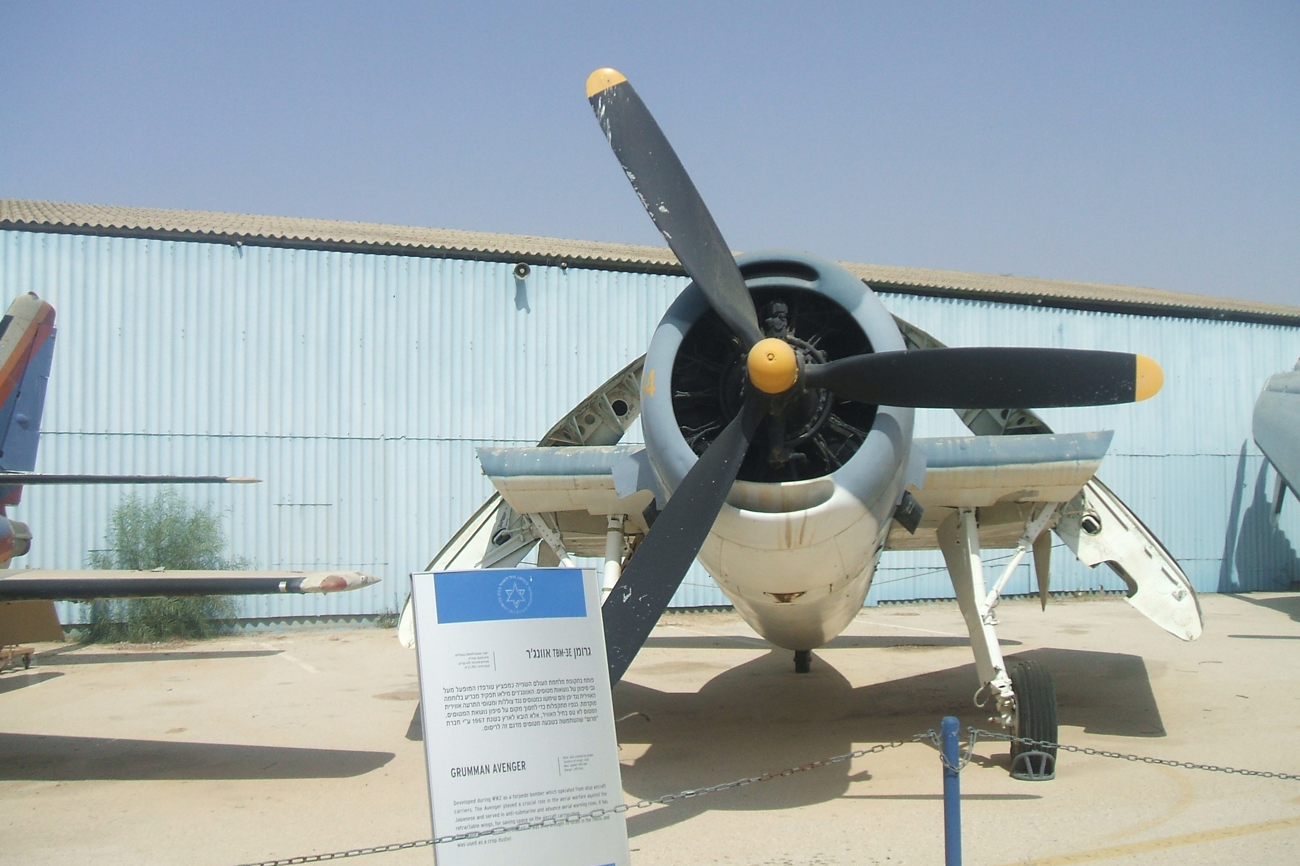 A Grumman Avenger TBM-3E plane. The picture was taken in the Isreali Air-Force Musean in Hazerim.